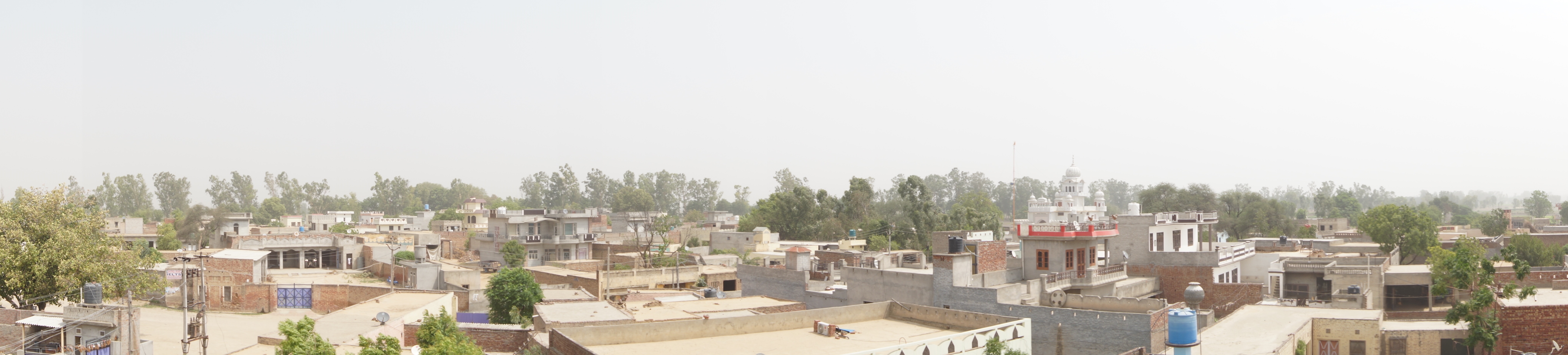 Panorama view of Deepgarh, Barnala district